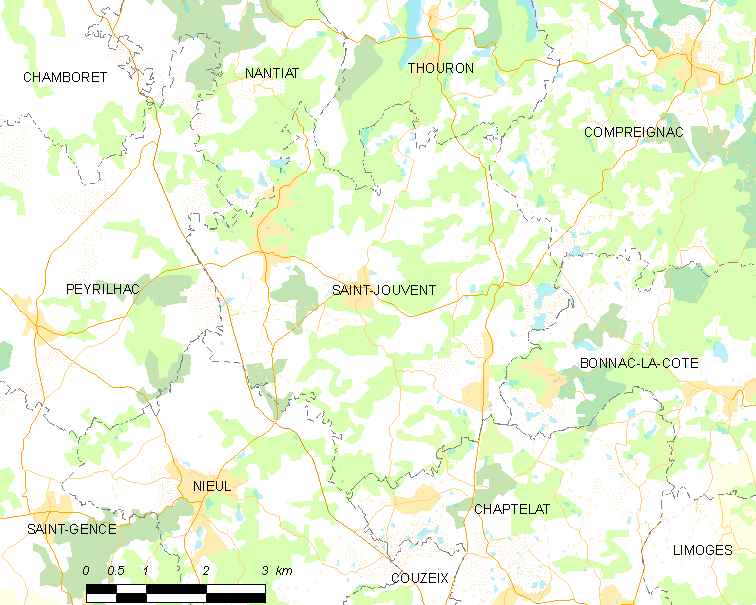 Map of French municipality Saint-Jouvent